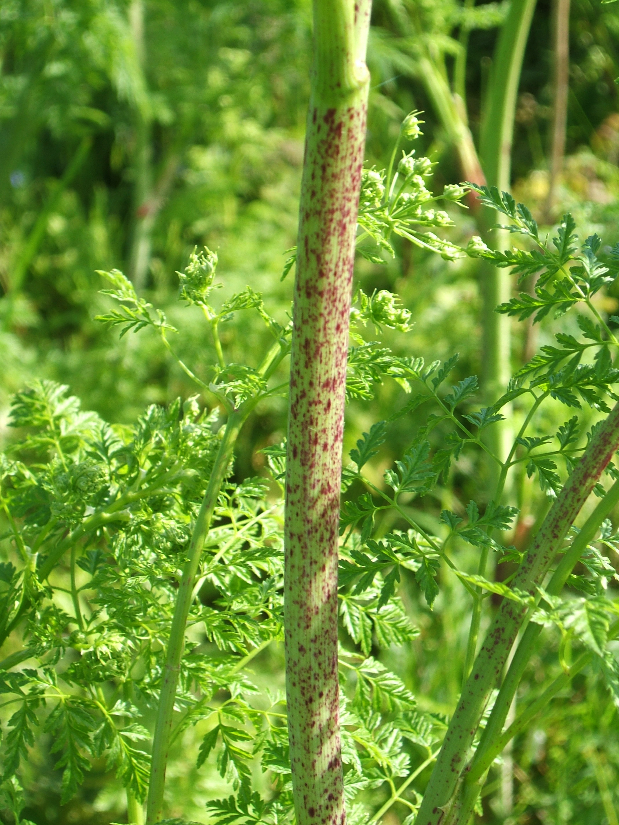 Conium maculatum stem, Hauxley Dunes, Northumberland (VC 67), UK